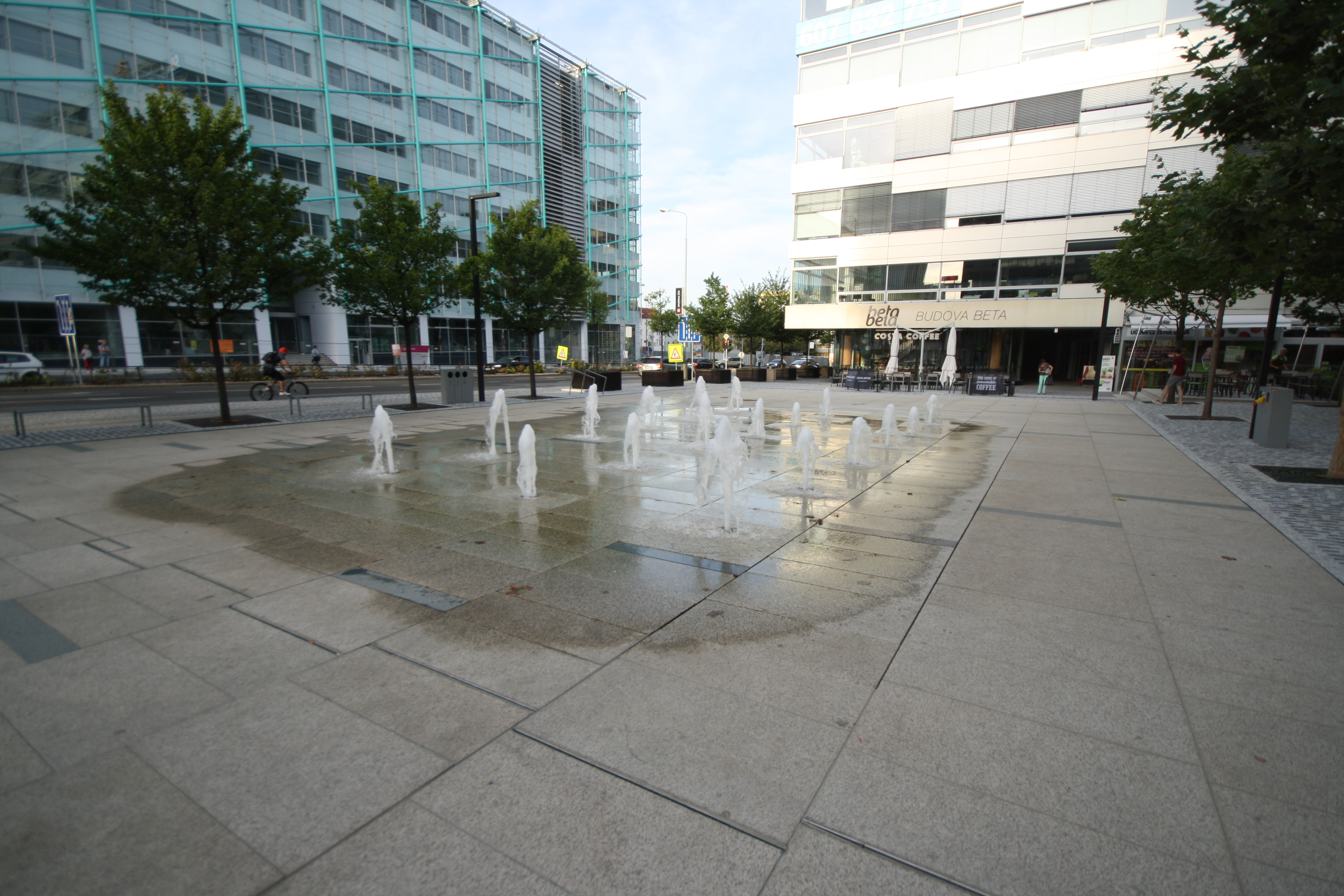 Fountain at square of BB Centrum in Prague-Michle, Prague.